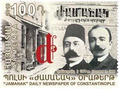 The postage stamp depicts the founders of "Jamanak" daily newspaper, brothers Misak and Sarkis Koçunyan. The postage stamp also depicts the old building of “Jamanak” daily newspaper and its logotype. "Jamanak" daily newspaper is being published in Istanbul since October 28, 1908 and is considered as the oldest daily of the Armenian world which has been uninterruptedly published.